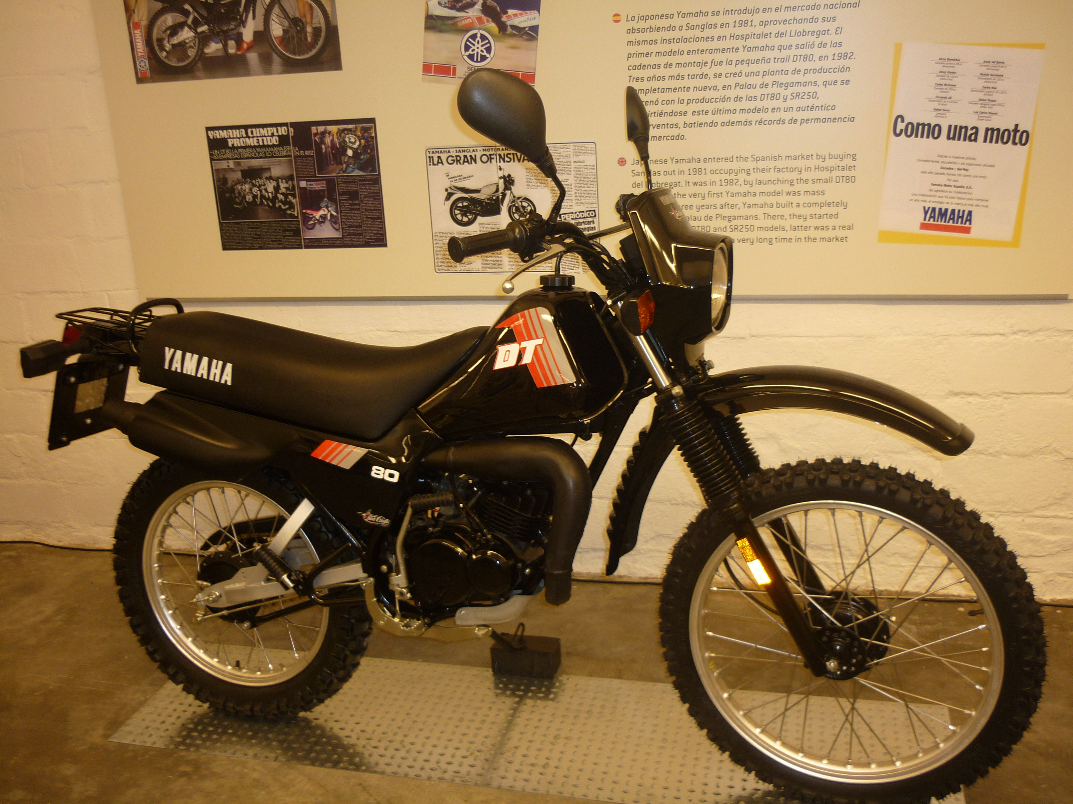 Yamaha DT-80 80 cc (1984), made in l'Hospitalet de Llobregat (Catalonia) by Yamaha Motor España (YMES).Museu de la Moto de Barcelona.